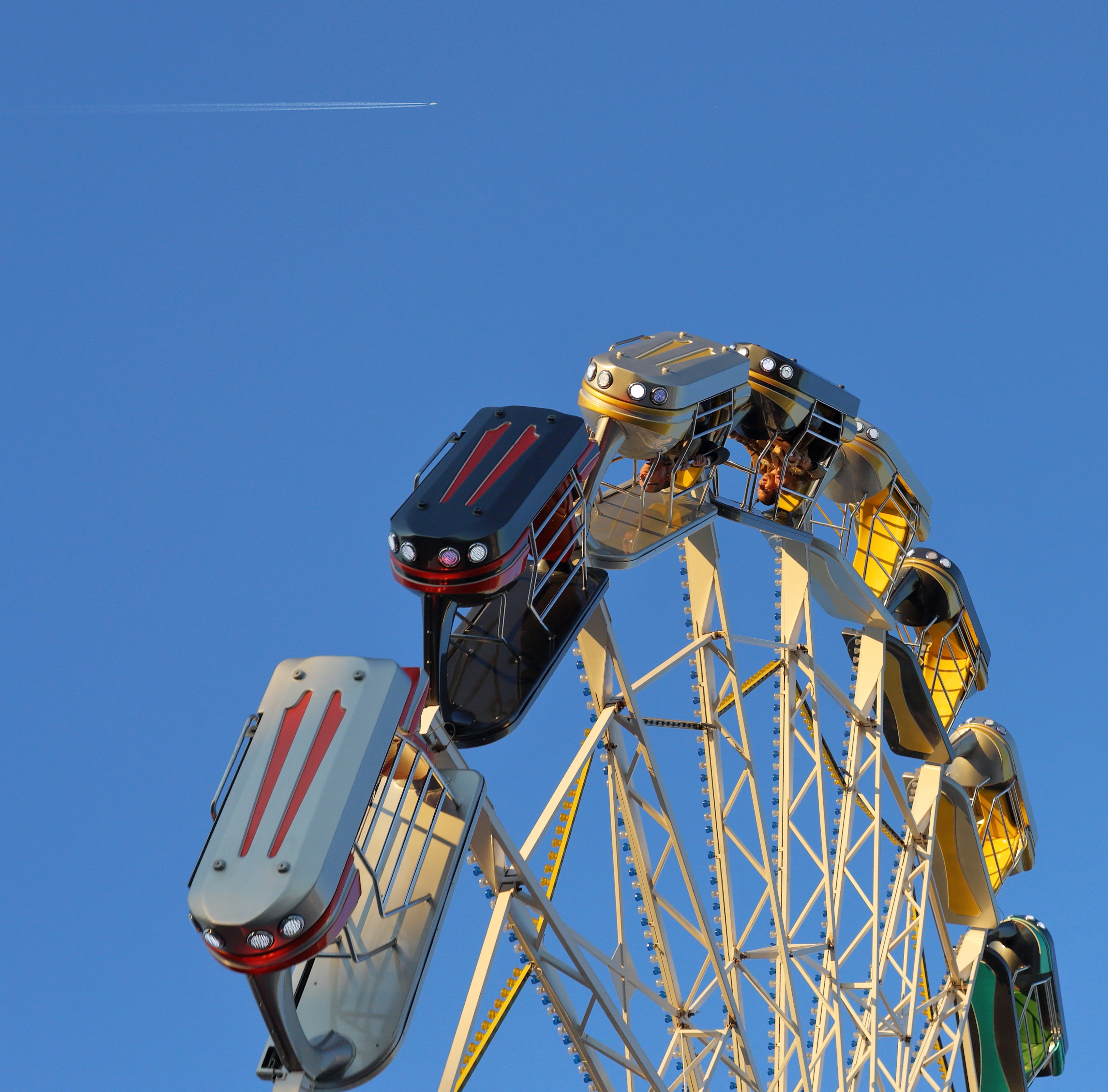 Impression of Munich's Oktoberfest 2015